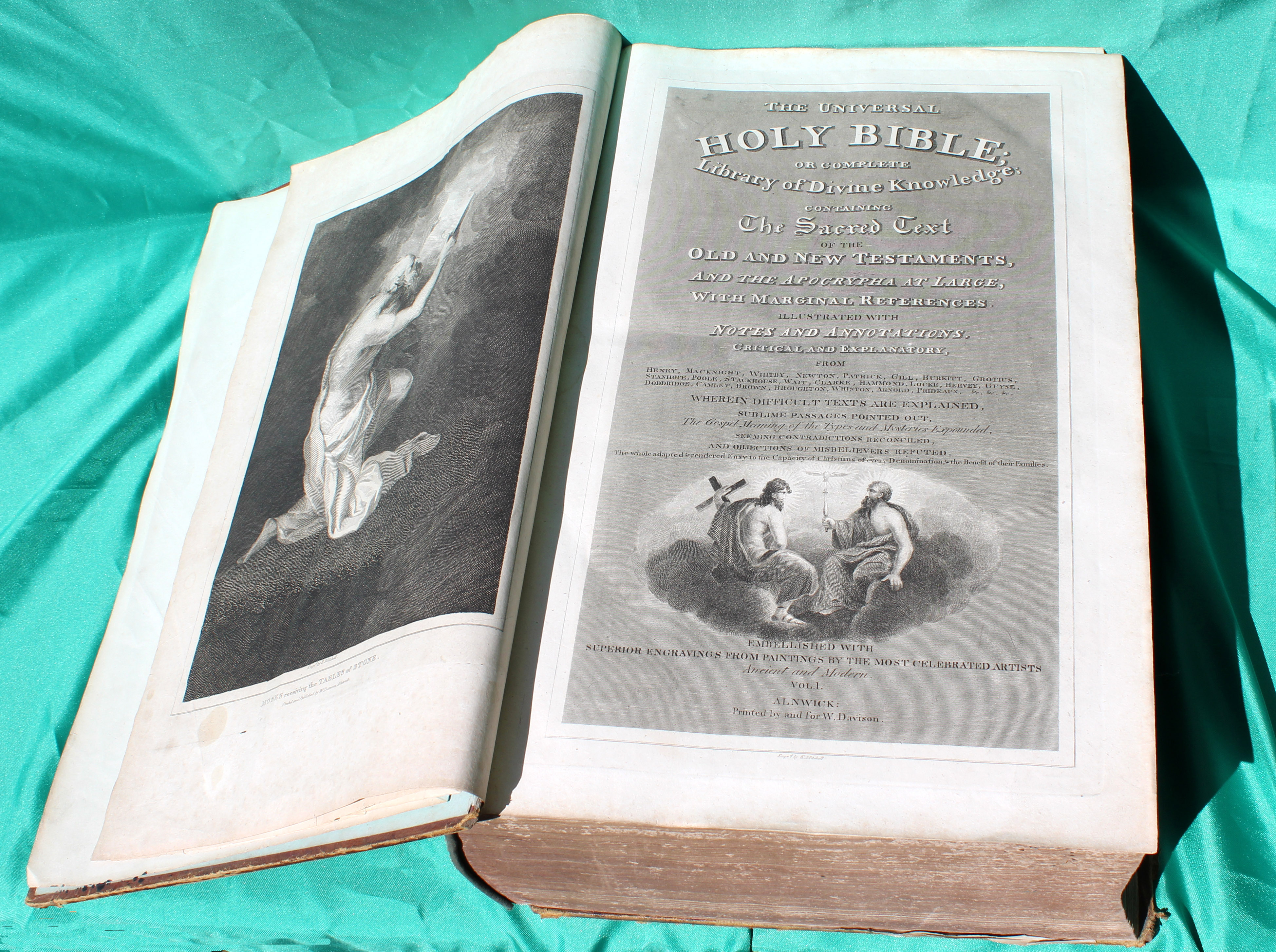 This shows a copy of the famous Davison Bible . Believed to be one of the first Partwork bibles and originally sold in 100 folios so as to be accessible to working people. Afterwards released as a full sized altar bible.